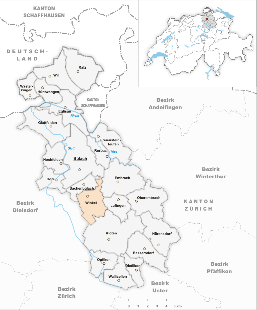 Municipality Winkel